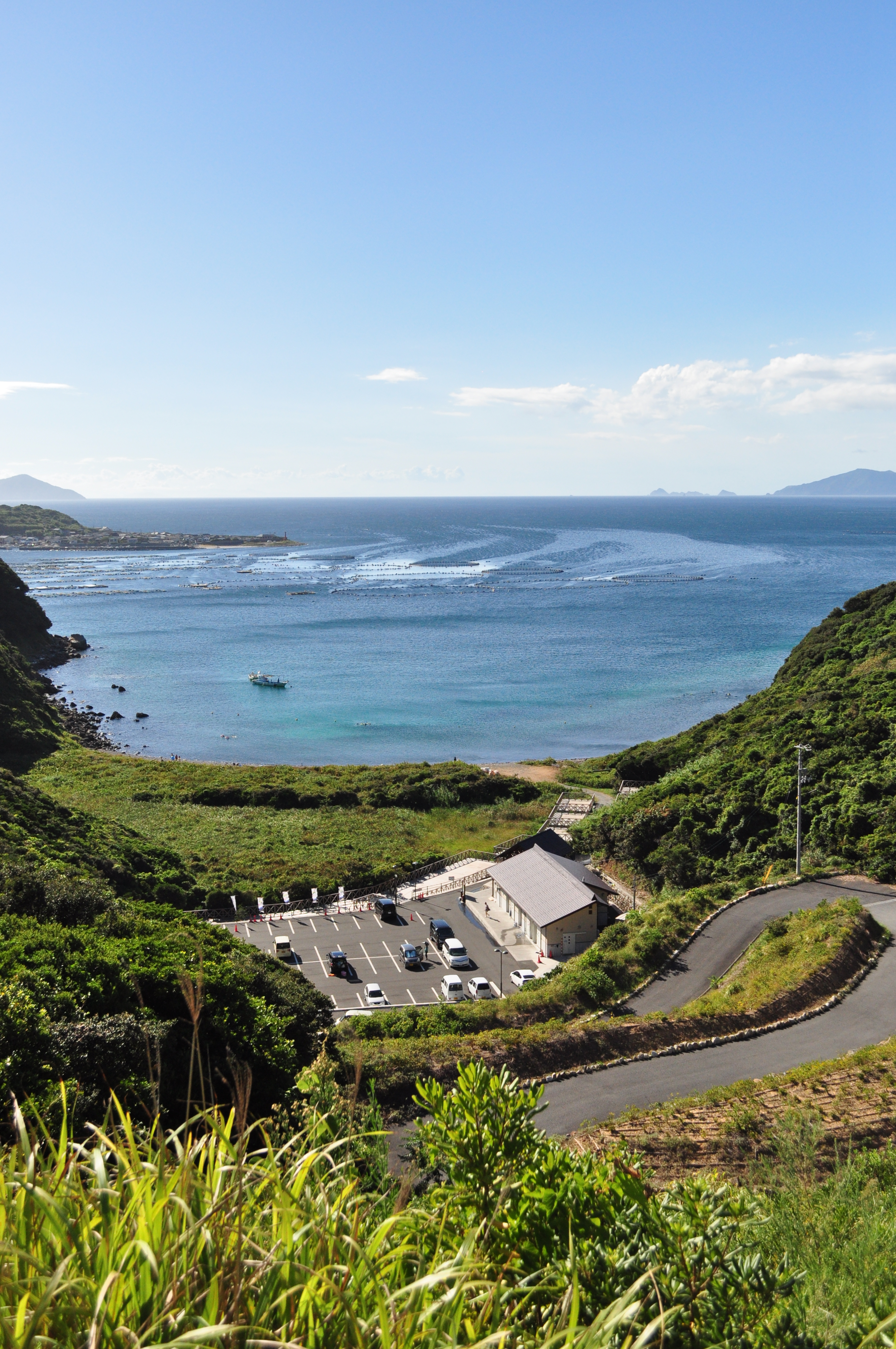 Ryugahama Campgrounds (竜ヶ浜キャンプ場), as seen from the entrance. Kashiwajima, Otsuki Town, Kochi Prefecture.